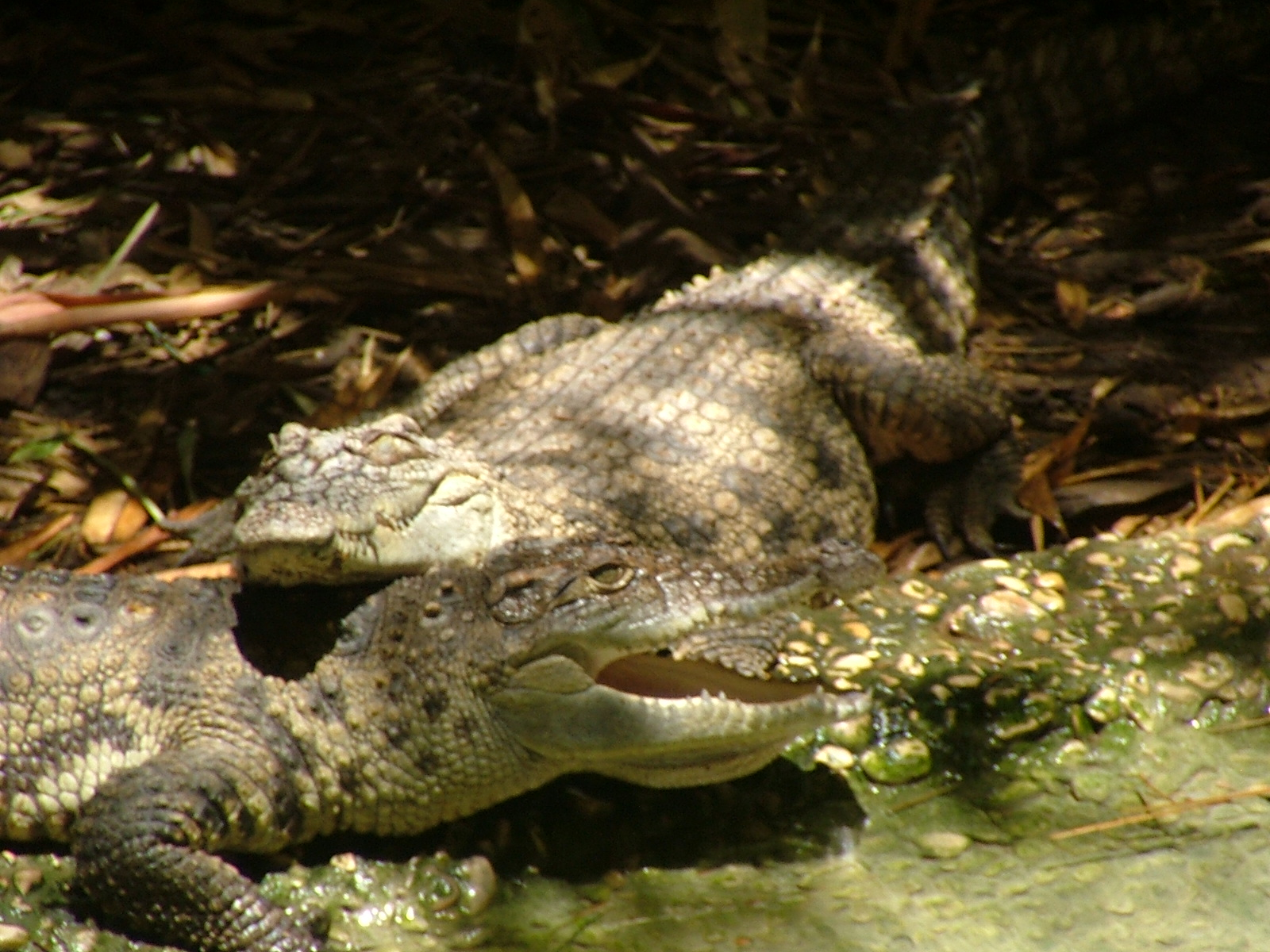 Siamese Crocodiles (Crocodylus siamensis) at the Jerusalem Biblical Zoo.